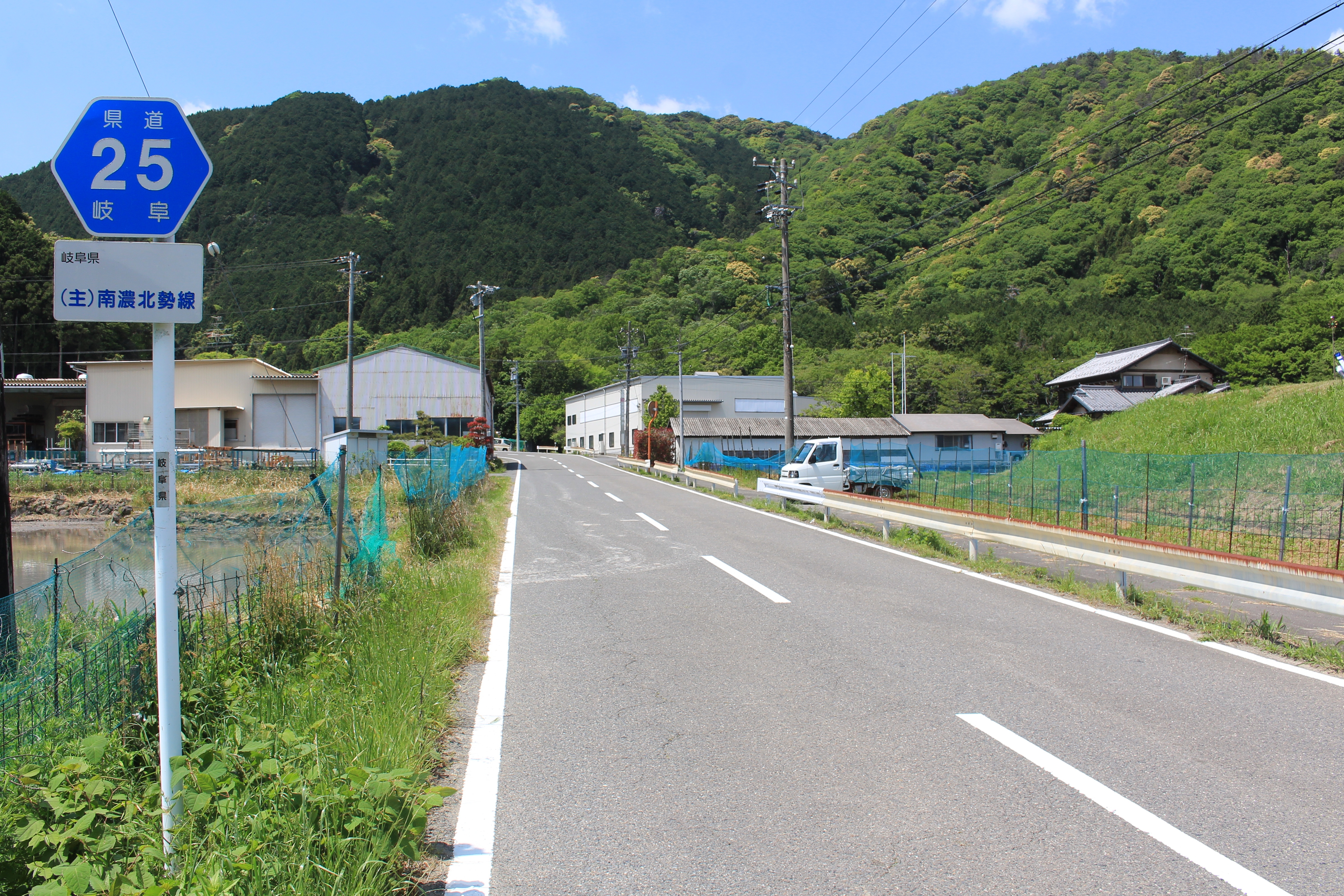 Gifu Prefectural Road Route 25 in Niwada, Nanno-cho, Kaizu, Gifu prefecture, Japan.